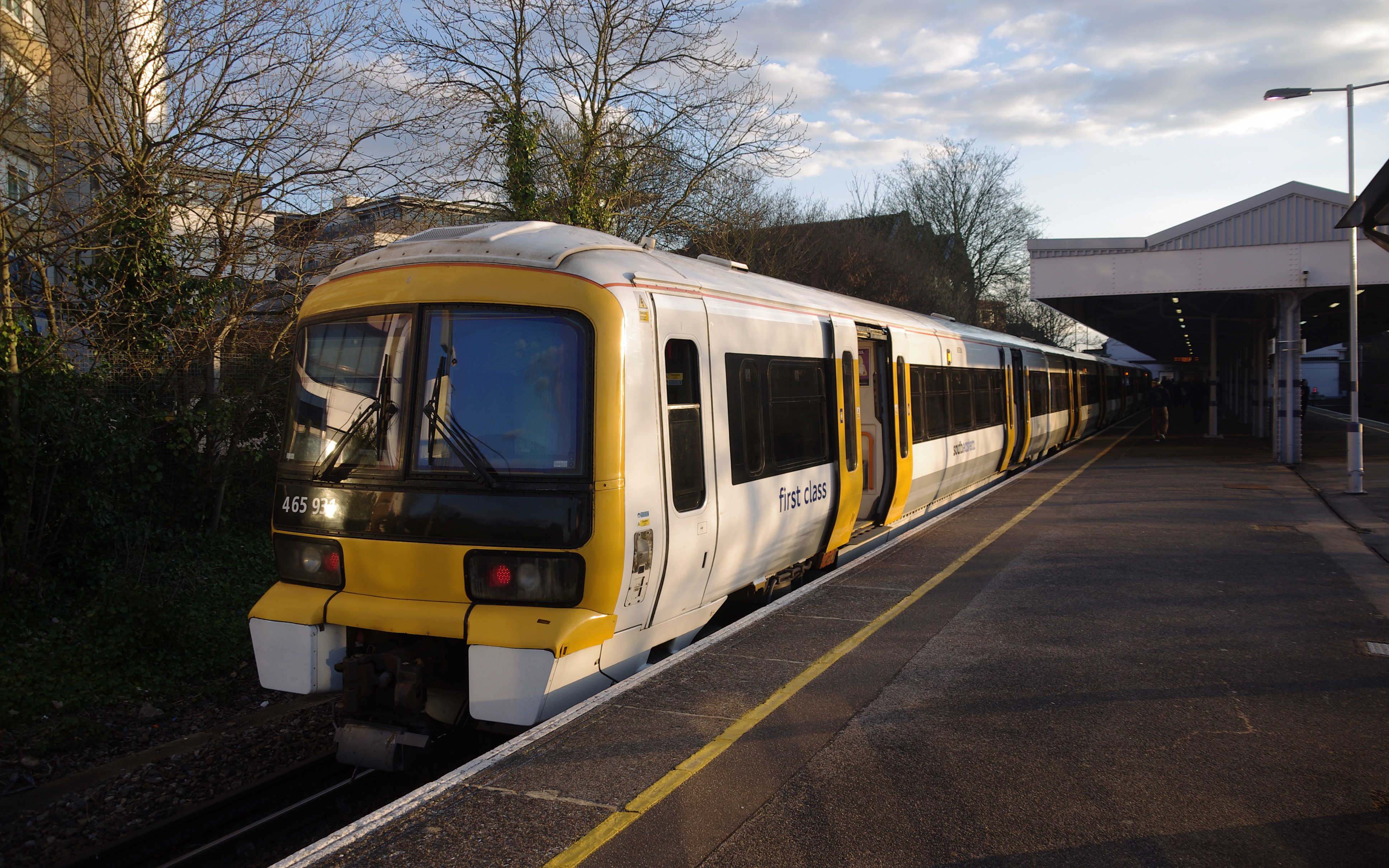 Southeastern Class 465 "Networker" EMU 465931 stands at Bromley North, operating the shuttle service to Grove Park.